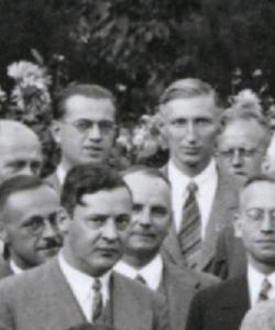 Above: Rudolf Hilsch and Otto Scherzer, in front: Erich Hückel, 1935 at Stuttgart on the occasion of a physicists congress.